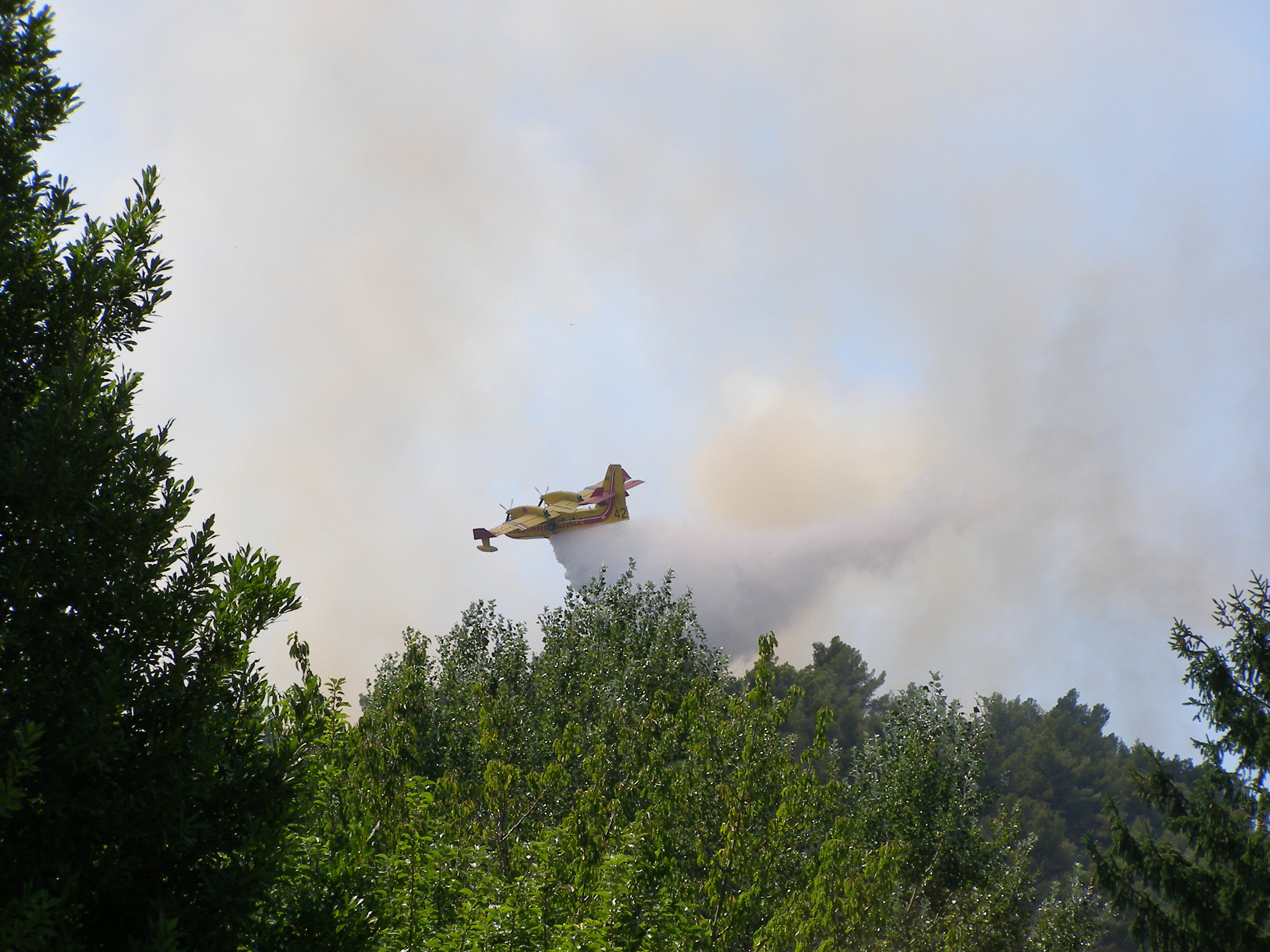 Fire Volx, Canadair in action.